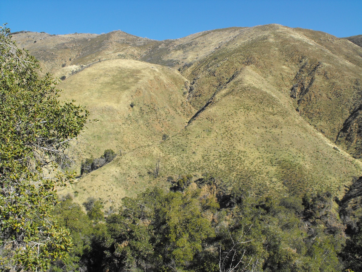 Slopes of the Laguna Mountains , in the Peninsular Ranges, on Hwy 78 in San Diego County, California, between Julian and Banner.